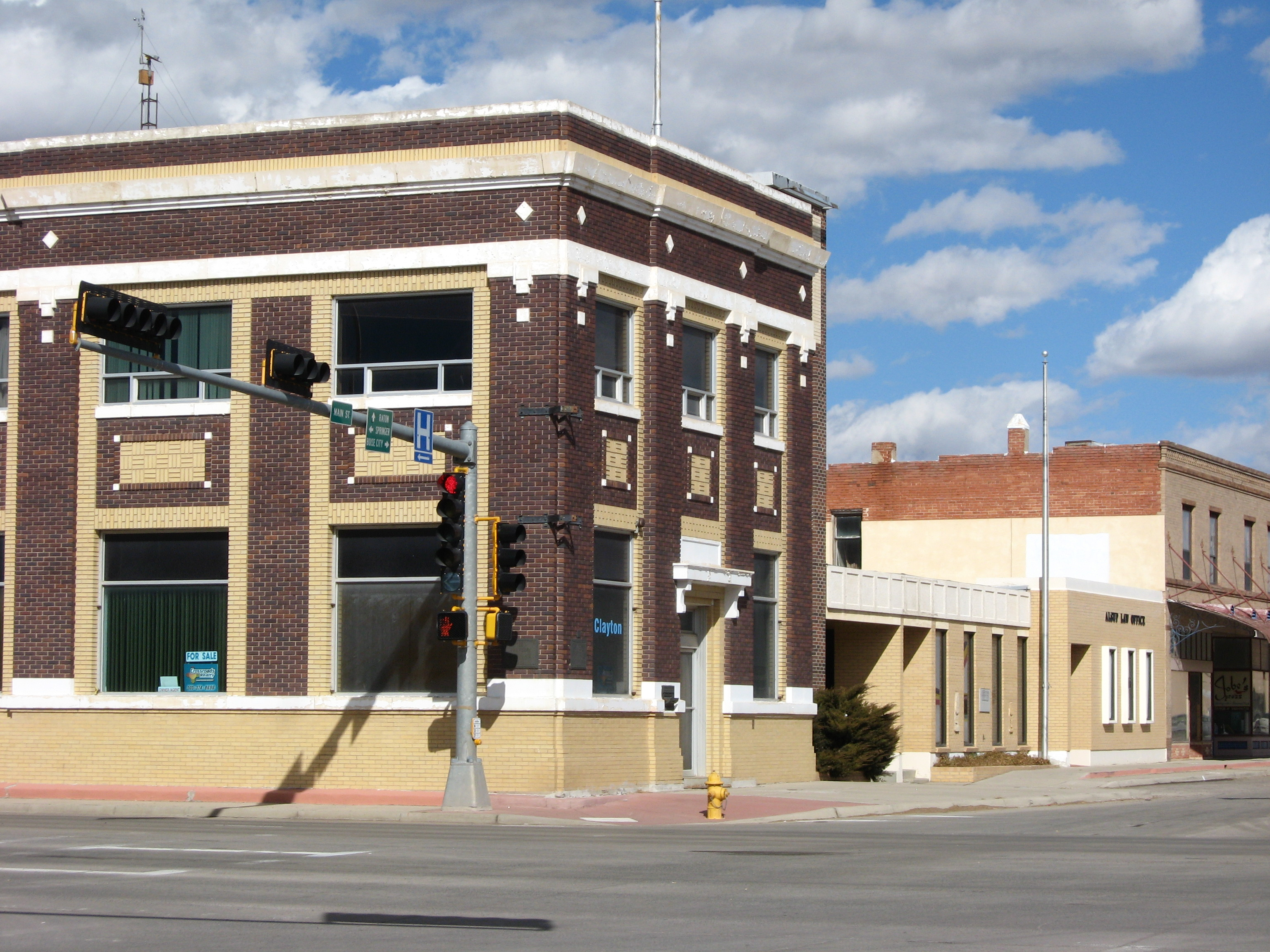 Thompson Building in Clayton, New Mexico, U.S.